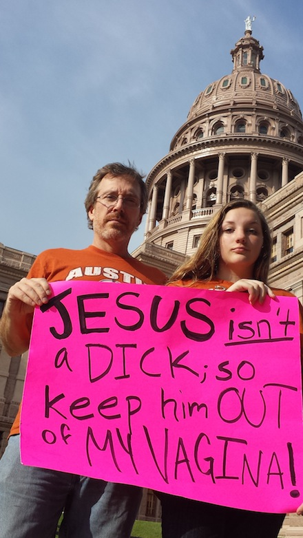 Jesus isn't a dick; so keep him out of my vagina.